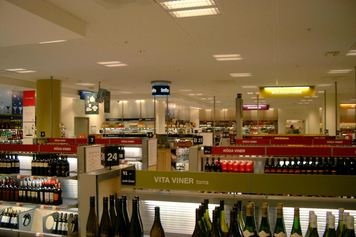 A look inside a self-service Systembolaget in Södertälje, Sweden Created by me October, 2006 in Södertälje, Sweden